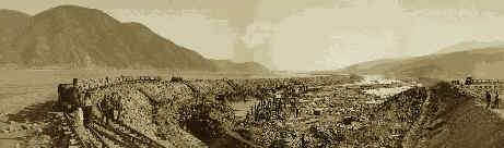 Building work in the Iron Gate